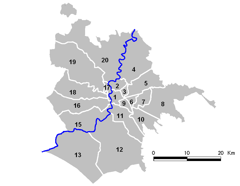 Locator maps of Rome